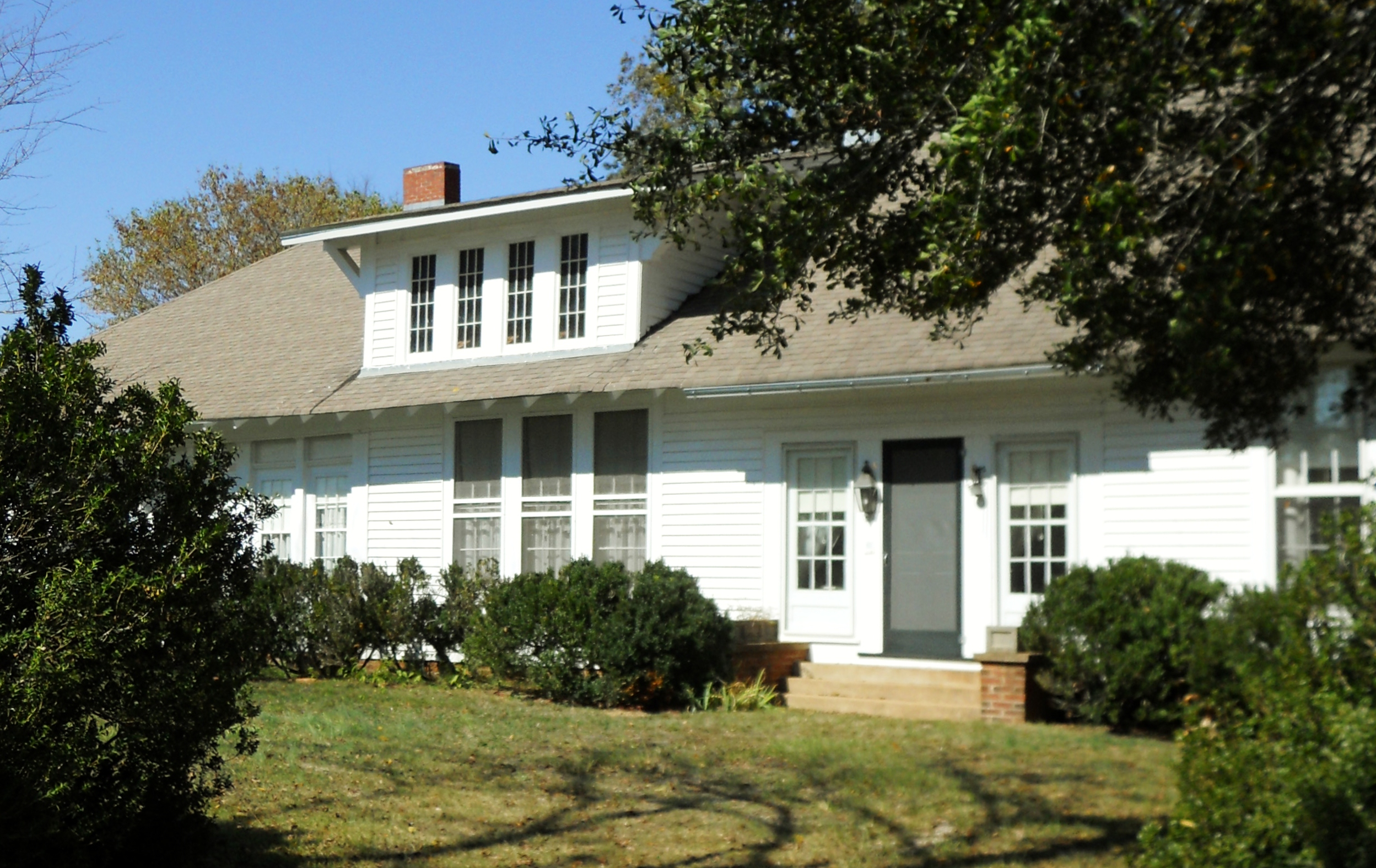 This is a photo of the Welch-Averiett House near Sylacauga Alabama